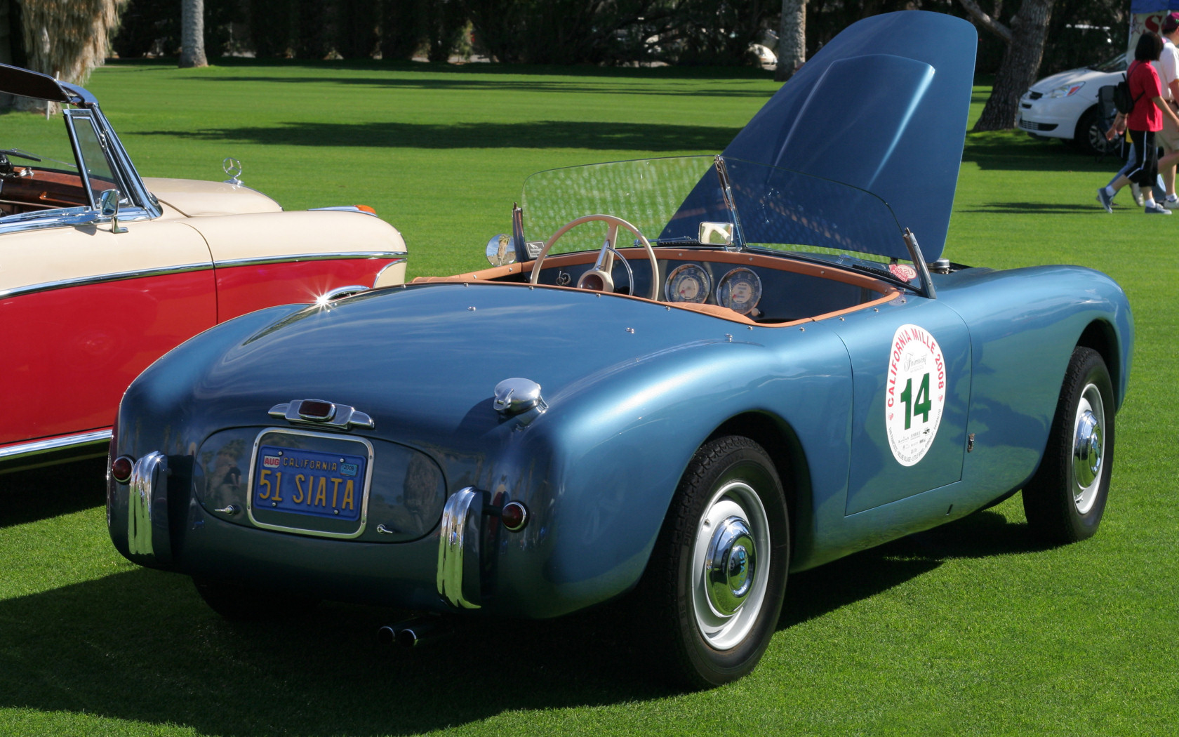 1951 Siata Daina Gran Sport at Palm Springs Desert Classic Concours d'Elegance, March 01, 2009